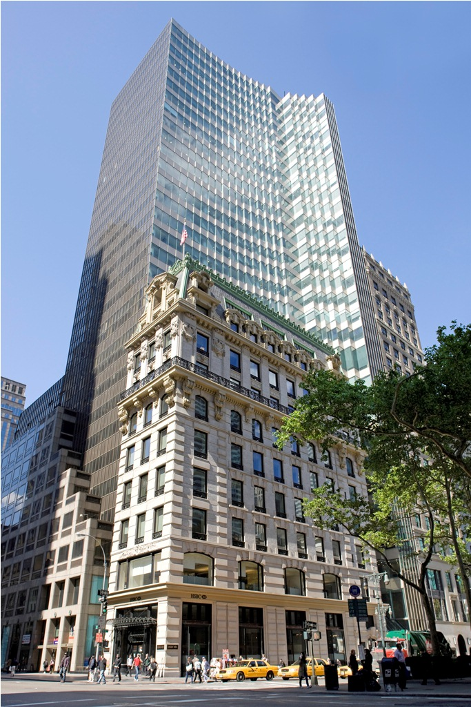 HSBC Tower, Manhattan